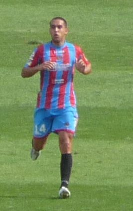 Udinese - Catania 13/09/2009